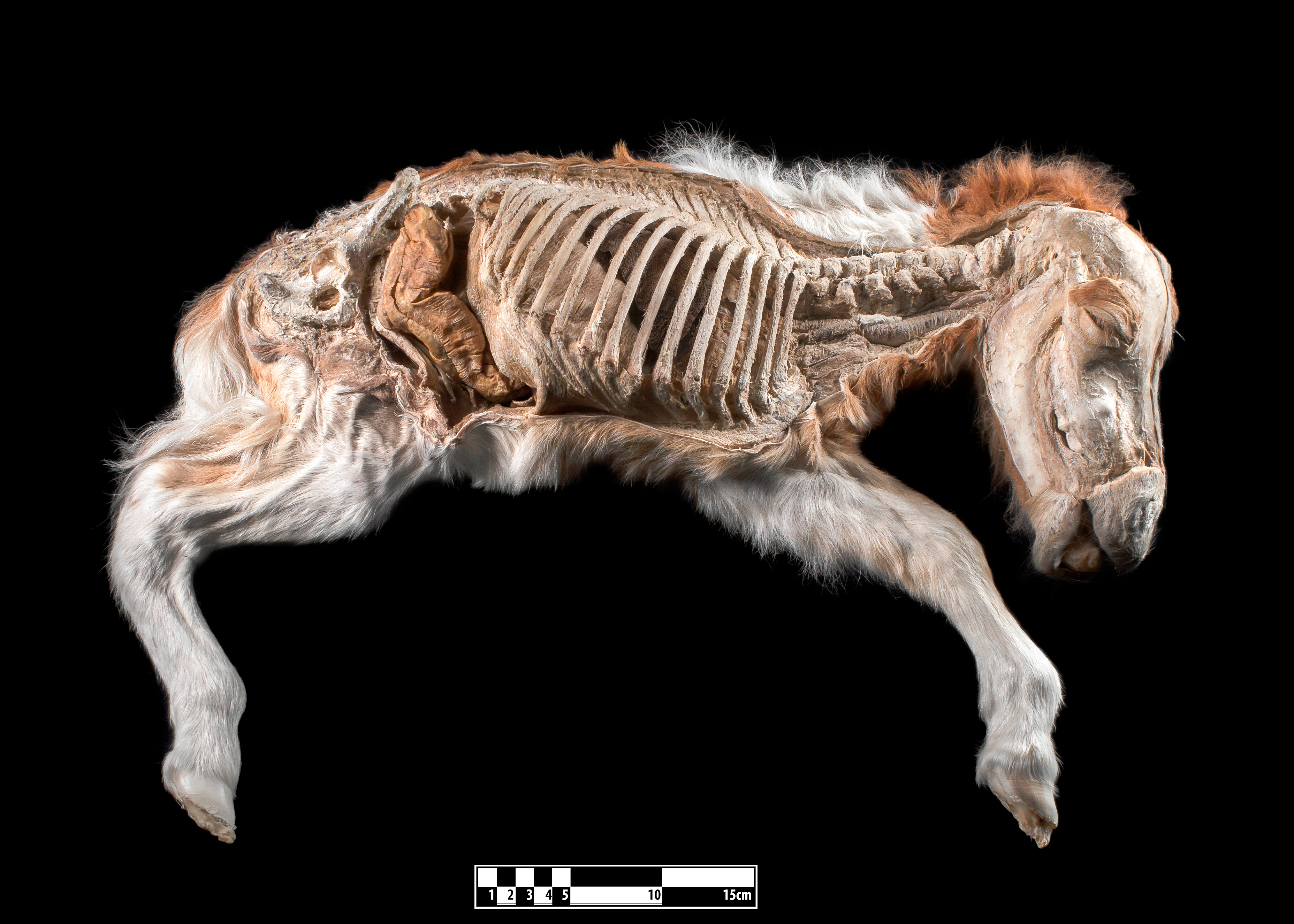 Minihorse foal. Equus ferus caballus Technique of dehydration - piece showing the syntopy of organs on display at the Museum of Veterinary Anatomy FMVZ USP. This file was published as the result of a partnership between the Museum of Veterinary Anatomy FMVZ USP, the RIDC NeuroMat and the Wikimedia Community User Group Brasil. This GLAM project is reported. Photography: Museum of Veterinary Anatomy FMVZ USP. Author: Wagner Souza e Silva.